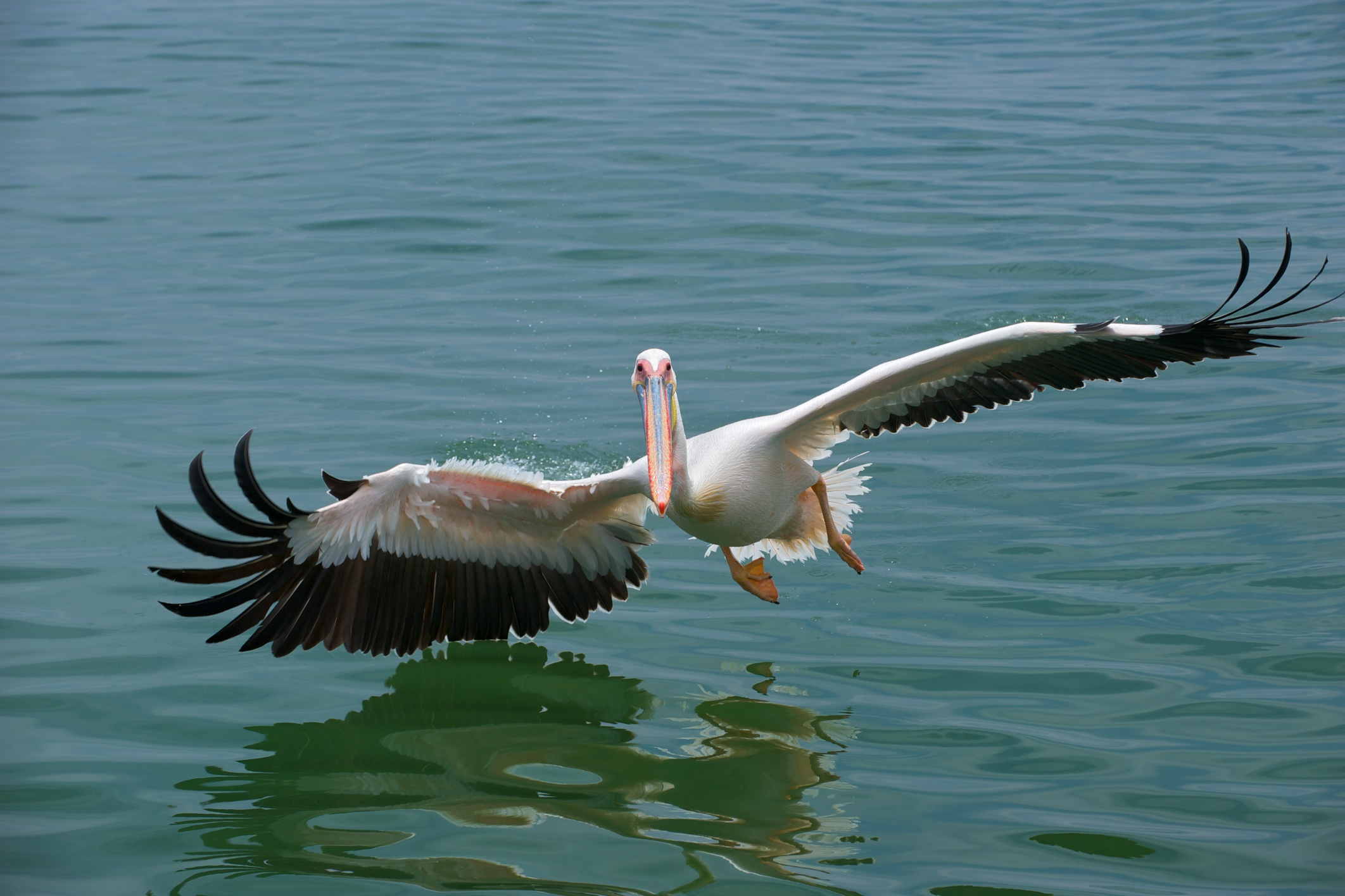 Great Whilte Pelican (Pelecanus onocrotalus) skimming the sea surface, in Namibia